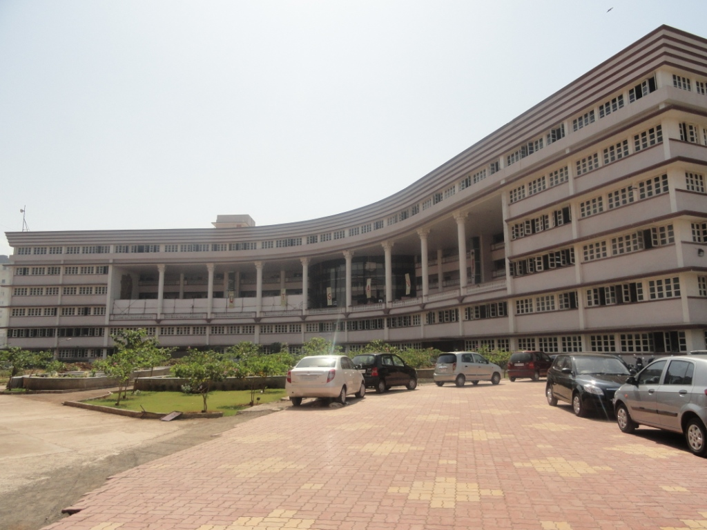 This is a new building of vesit